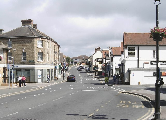 High Street, Polegate Taken from beside the level crossing.